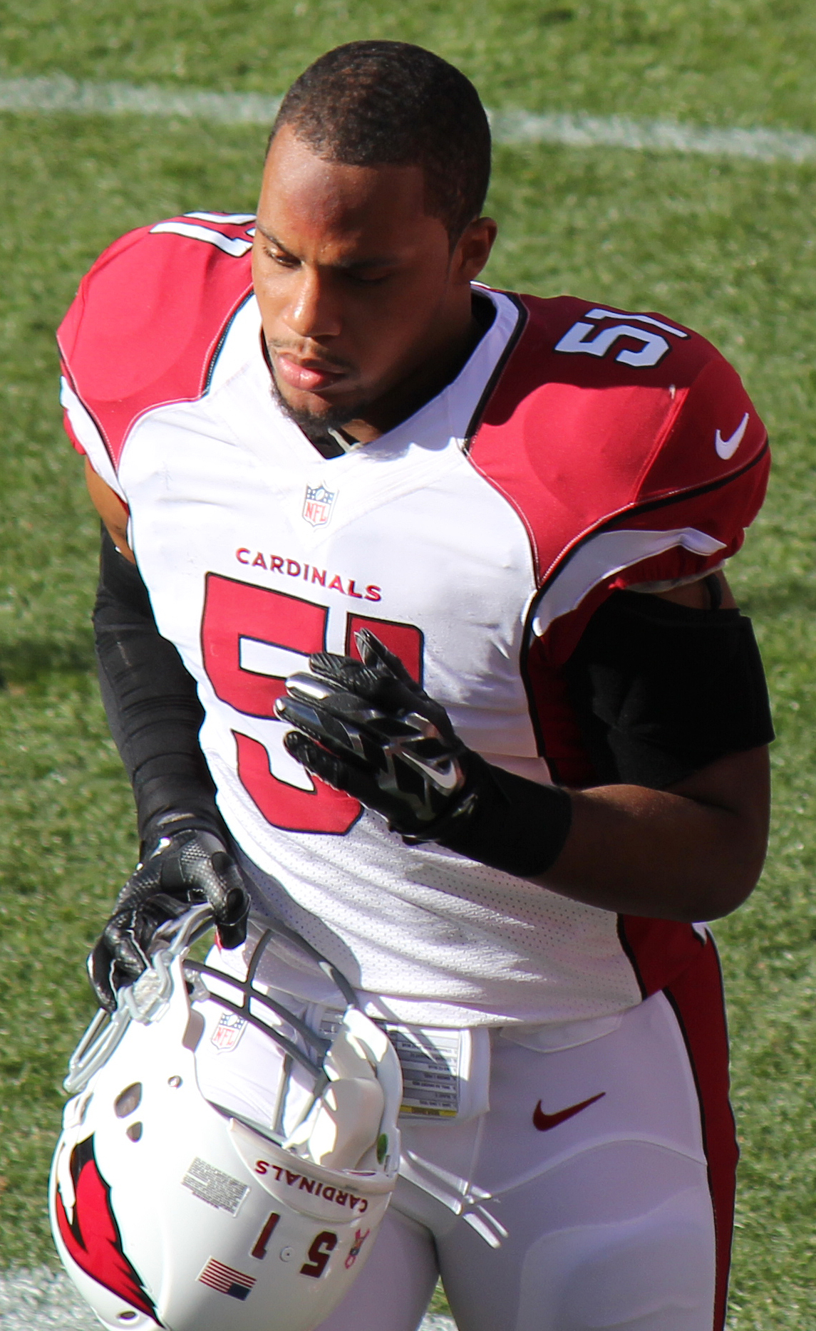 Kevin Minter, a player on the National Football League.